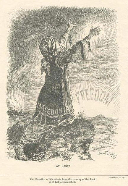 Mother Macedonia - personification of Macedonia. The picture symbolizes the liberation of Macedonia from the Ottoman Turks.